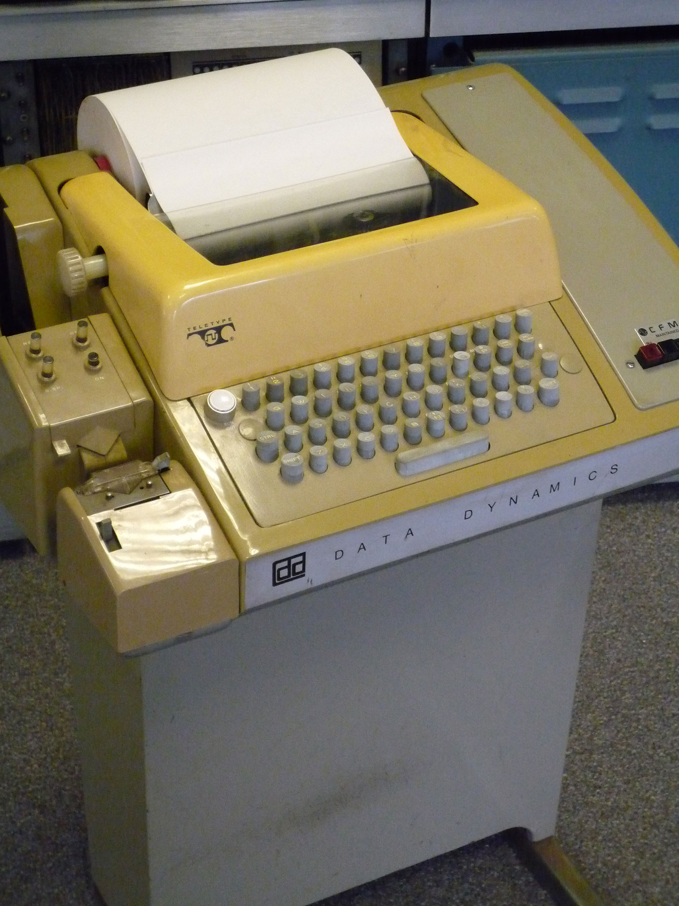 A Teletype model 33 ASR with paper tape reader and punch, on display at The National Museum of Computing